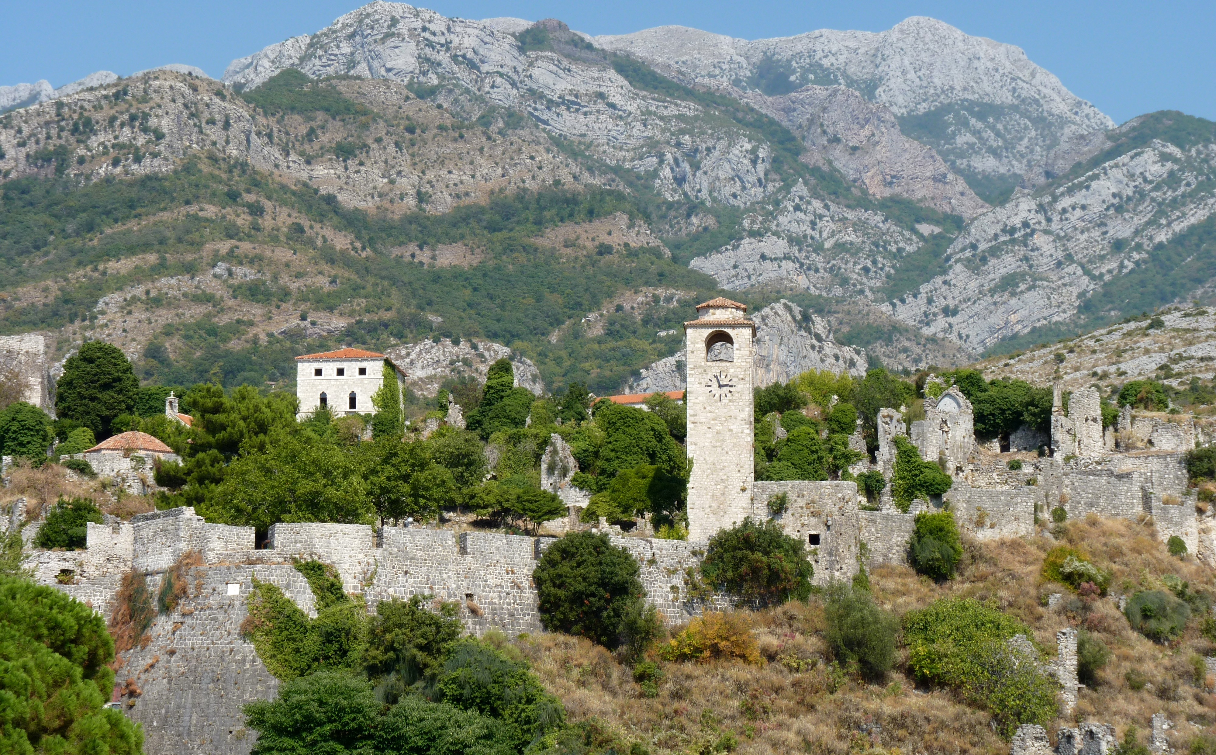 Stari Bar is a ruined city in Montenegro